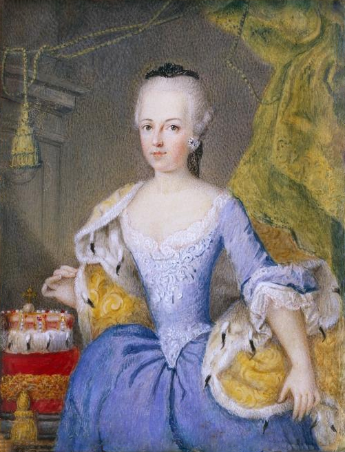 Marie Christine, Erzherzogin von Österreich